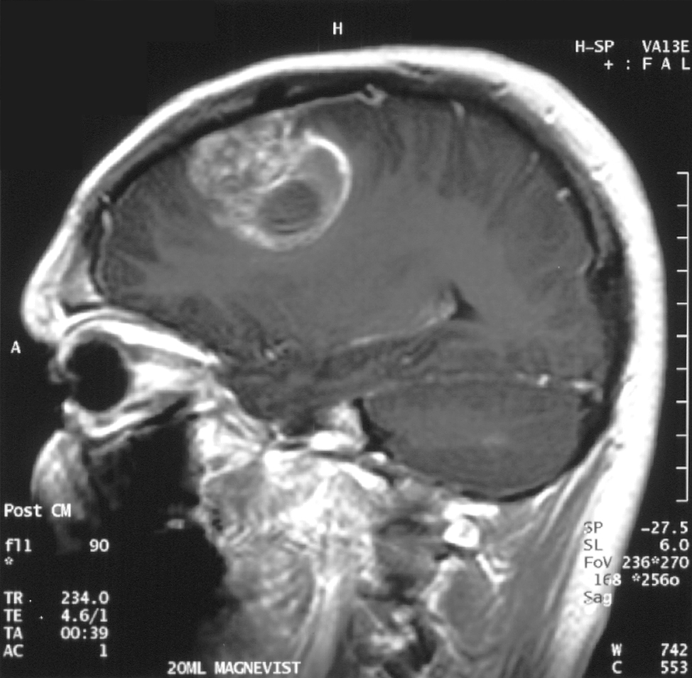 Gliobastoma (astrocytoma) WHO grade IV - MRI sagittal view, post contrast. 15 year old boy.